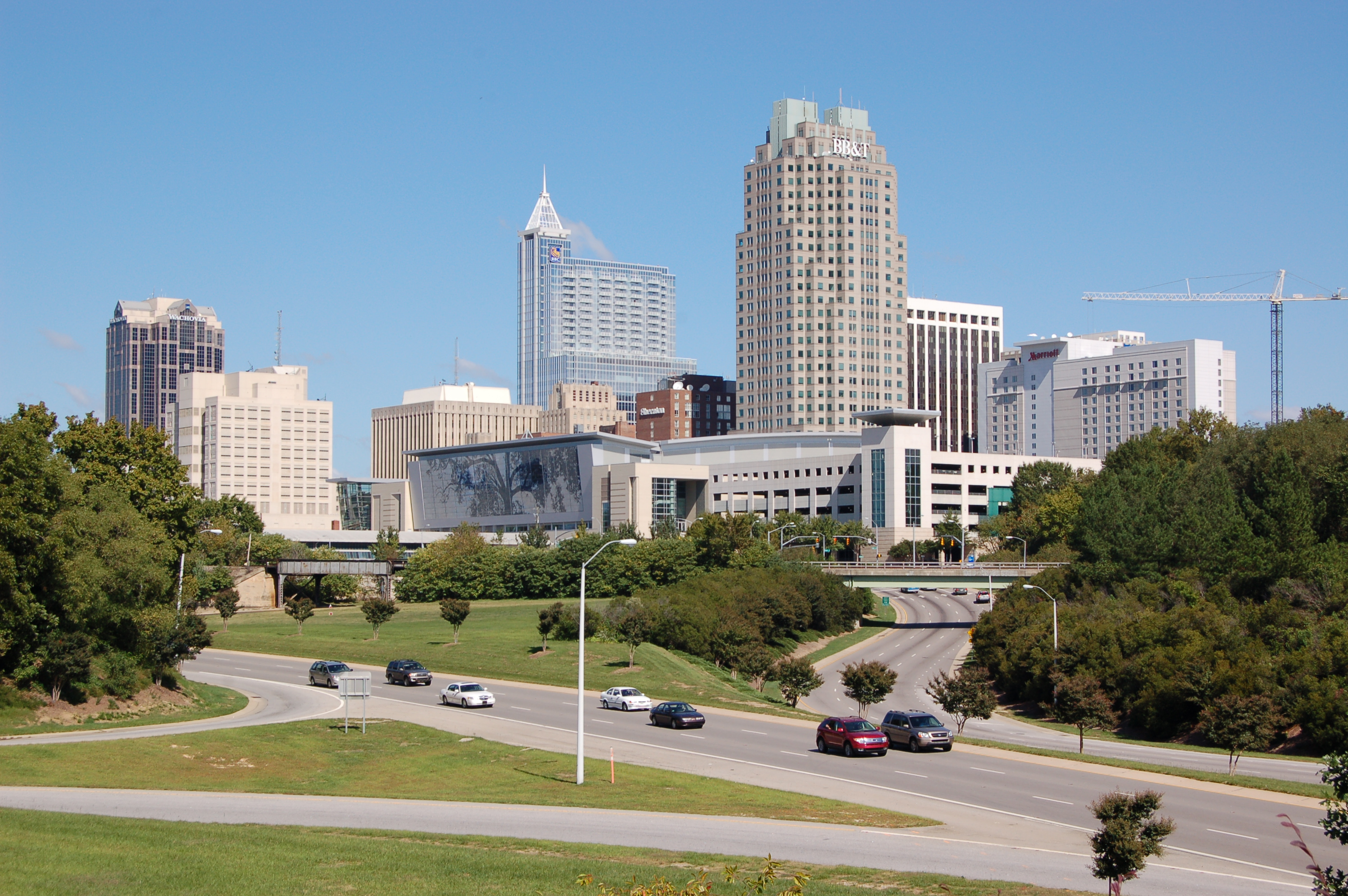 Downtown Raleigh, North Carolina, 12 October 2008.